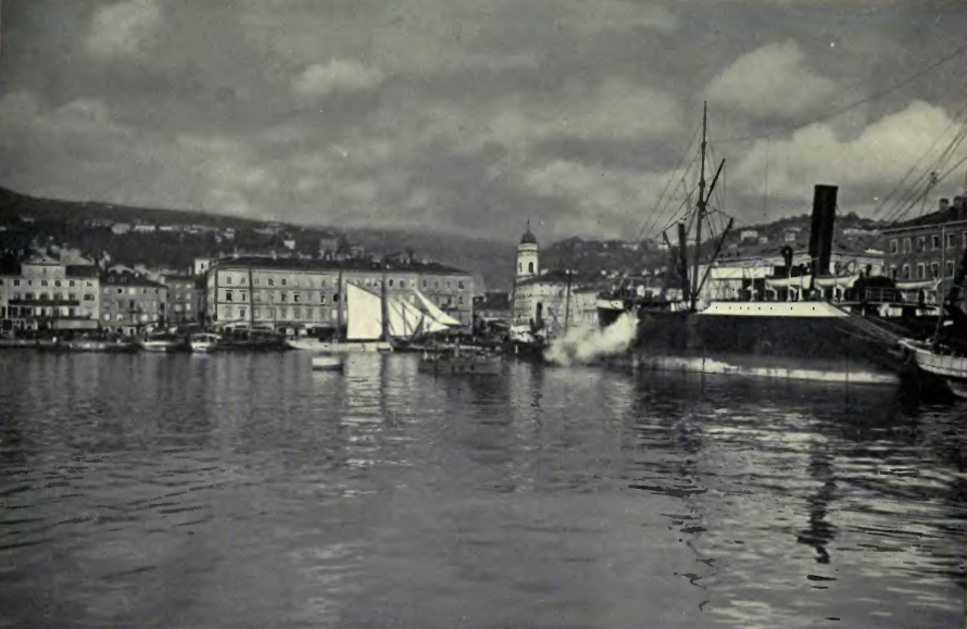 Fiume, Hungary's only port, taken from her by the Treaty of Trianon, early XX century.